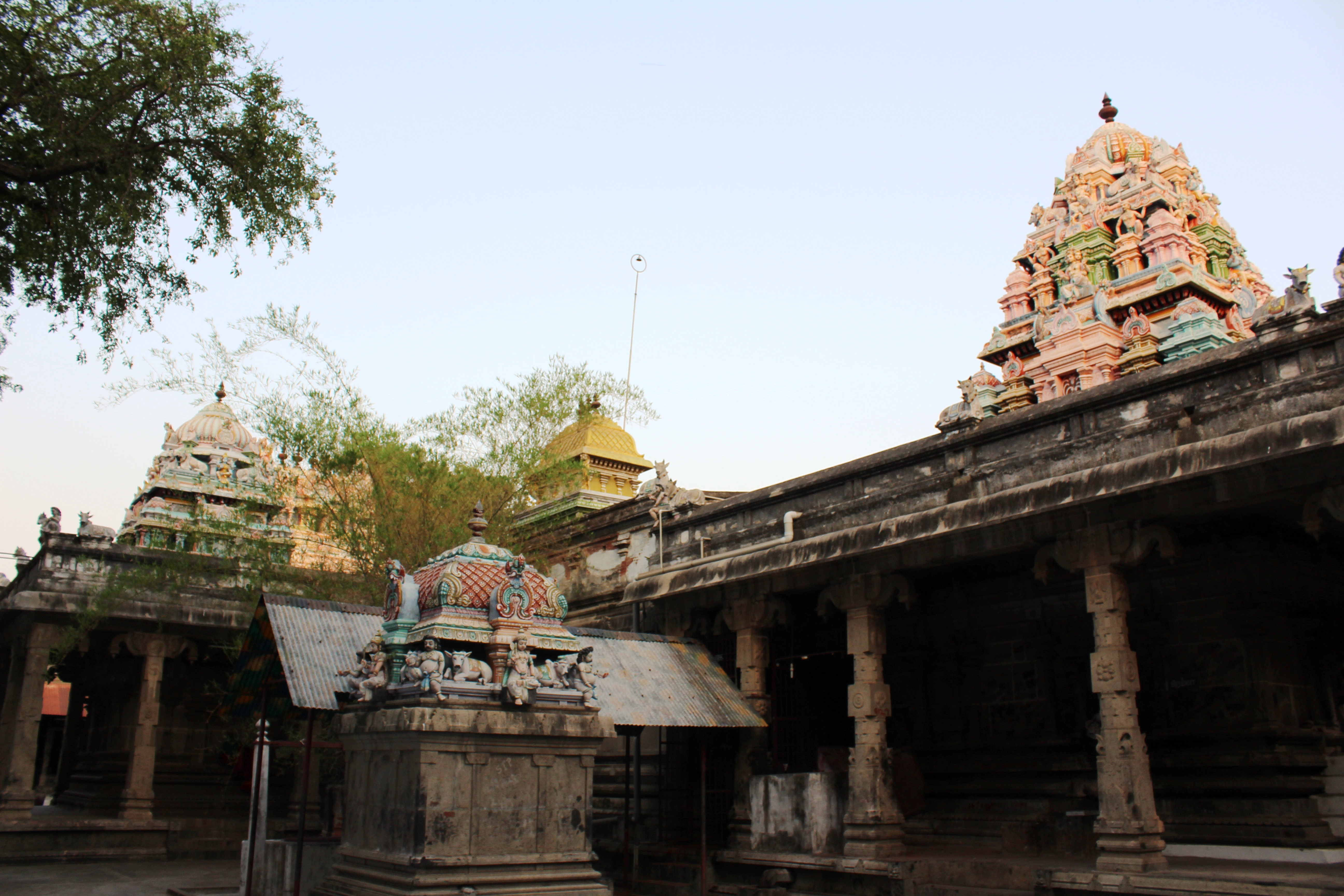 Thiruvetkalam